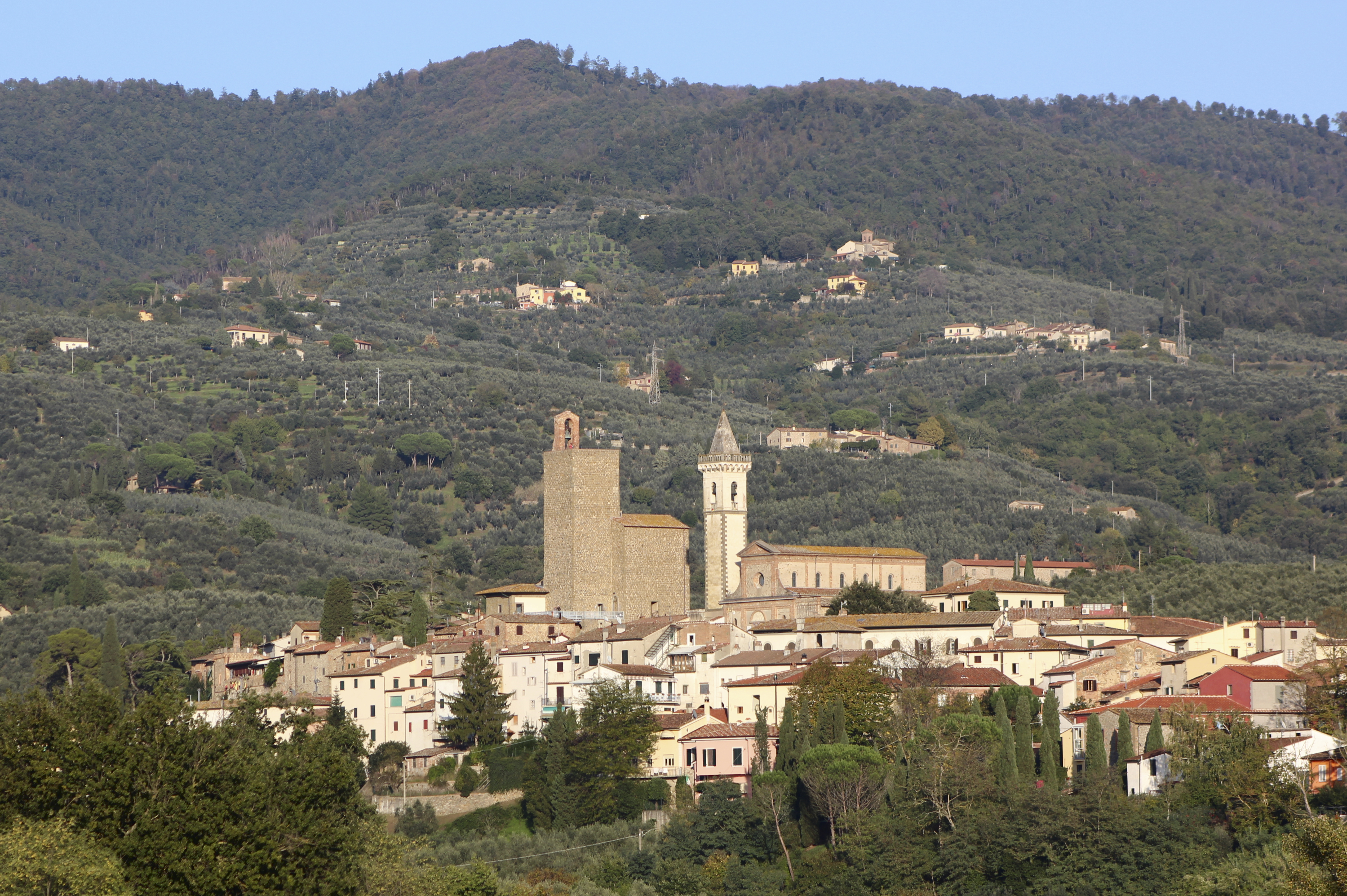 views of Vinci, Tuscany, Italy